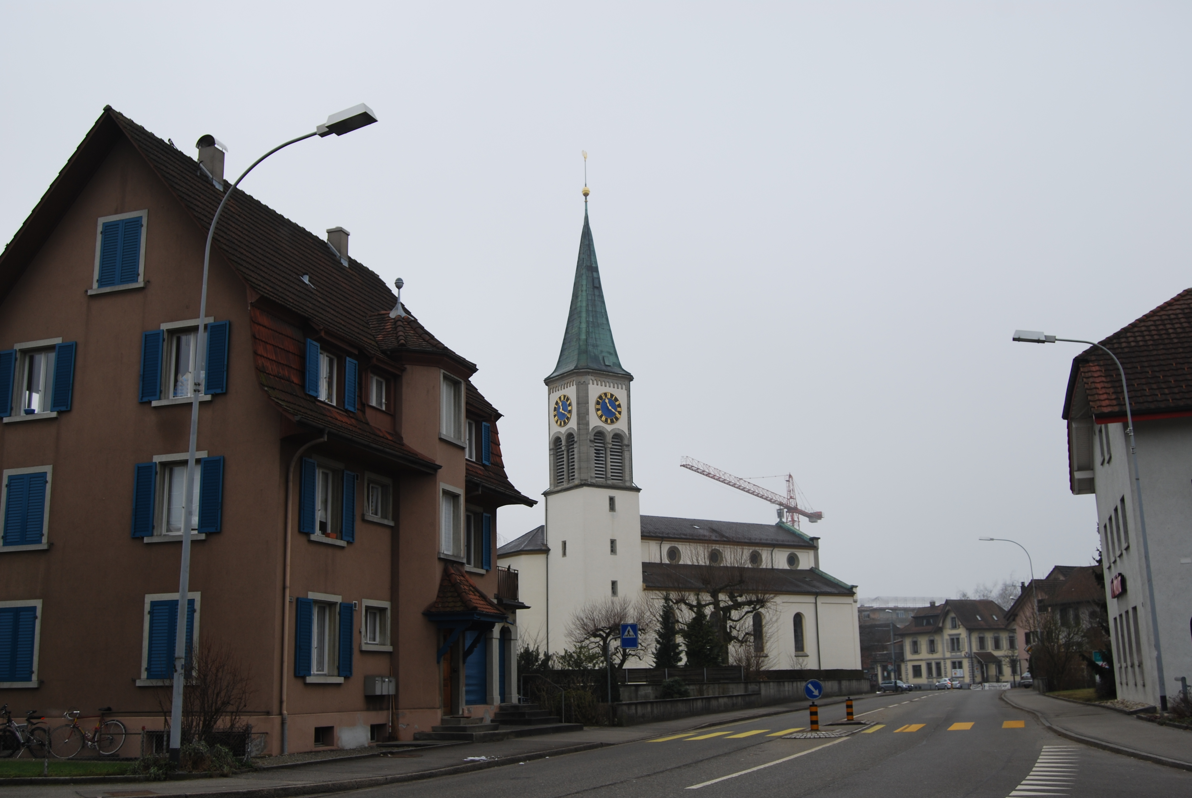 Church of Oberentfelden, canton of Aargau, SwitzerlandEsperanto: Preĝejo de Oberentfelden, Kantono Argovio, Svislando